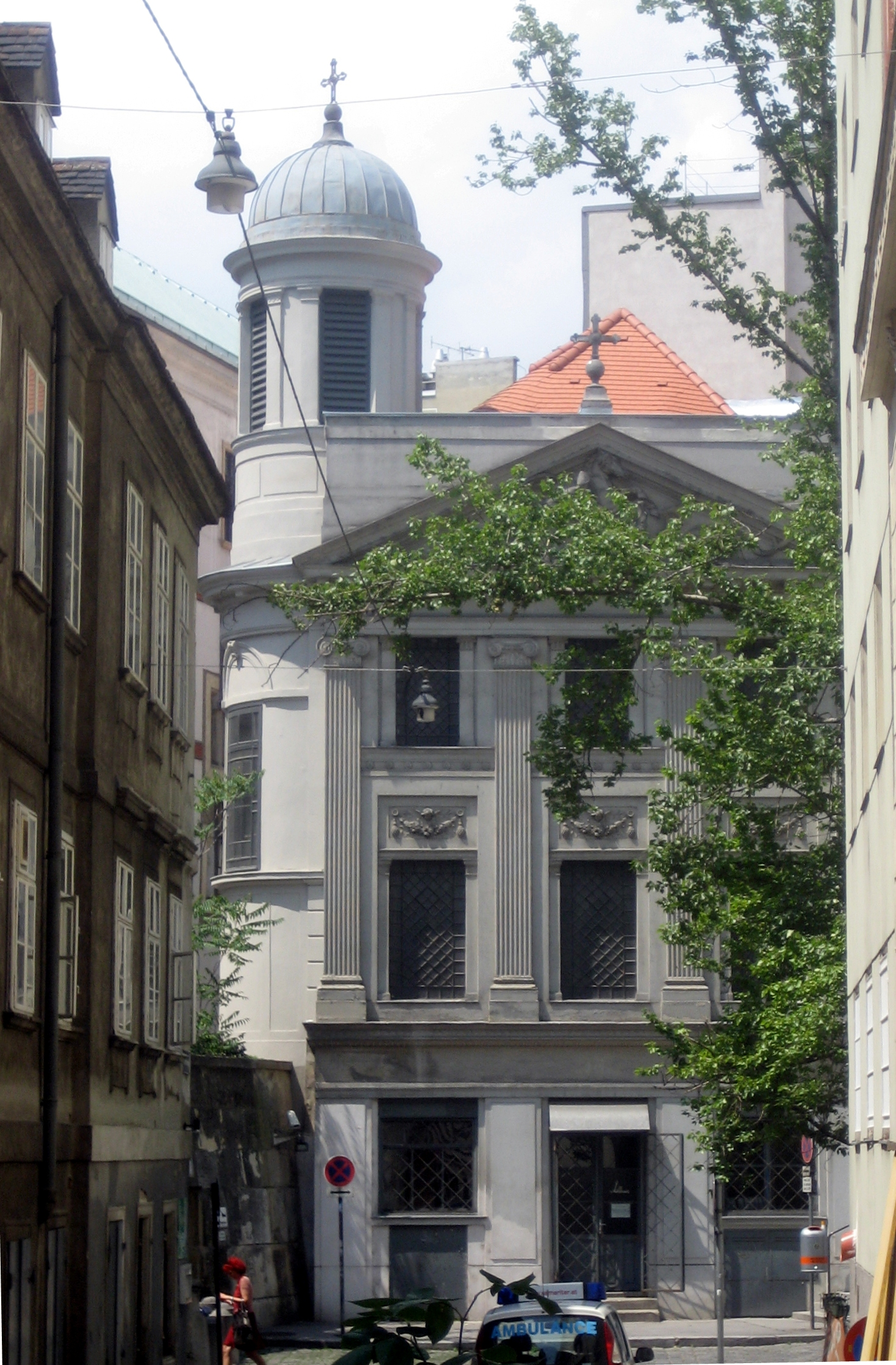 Greek Church of St. George, Vienna